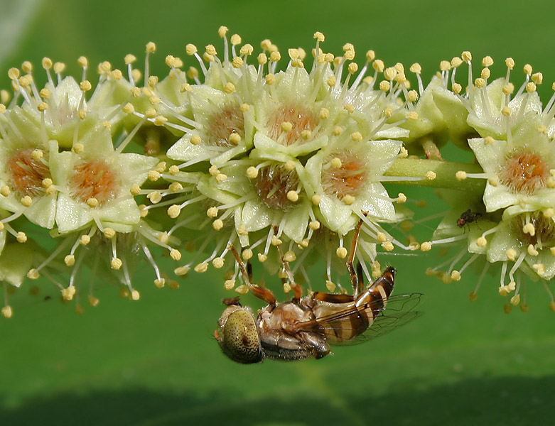 Desi Badam Terminalia catappa in Hyderabad , India.